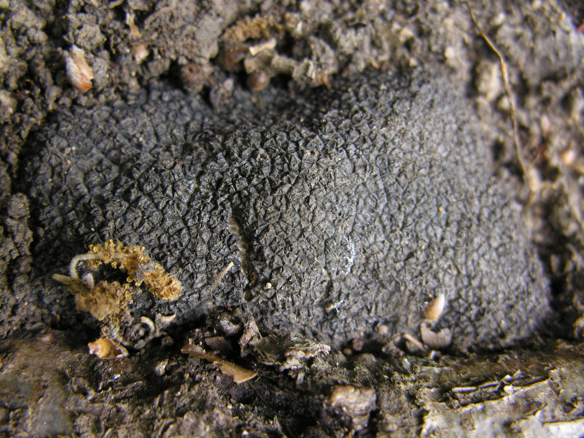 Truffle in situ